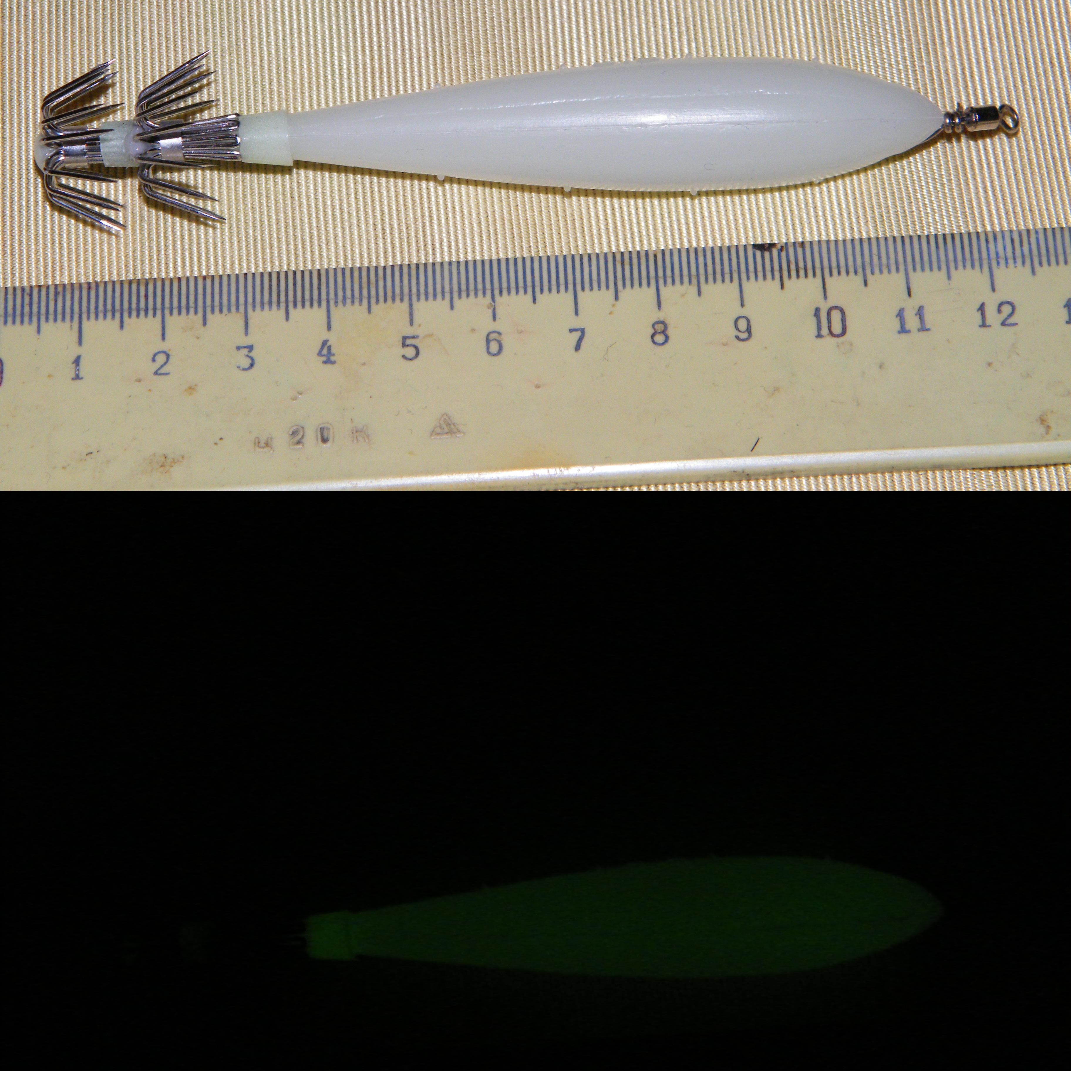 Fishing lure